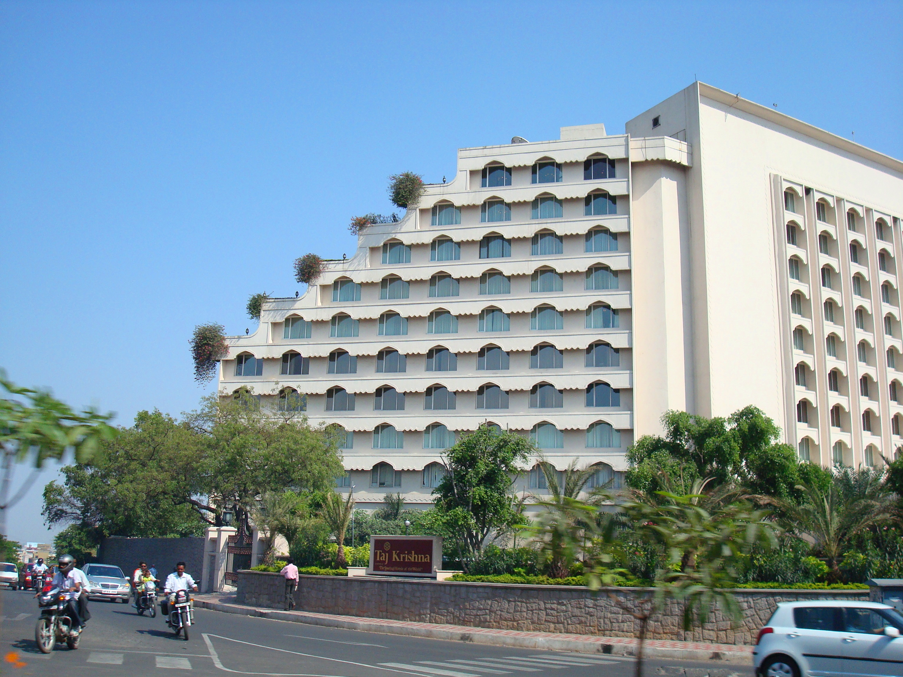 The hotel Taj Krishna at Banjara hills, a popular lankmark of the area.